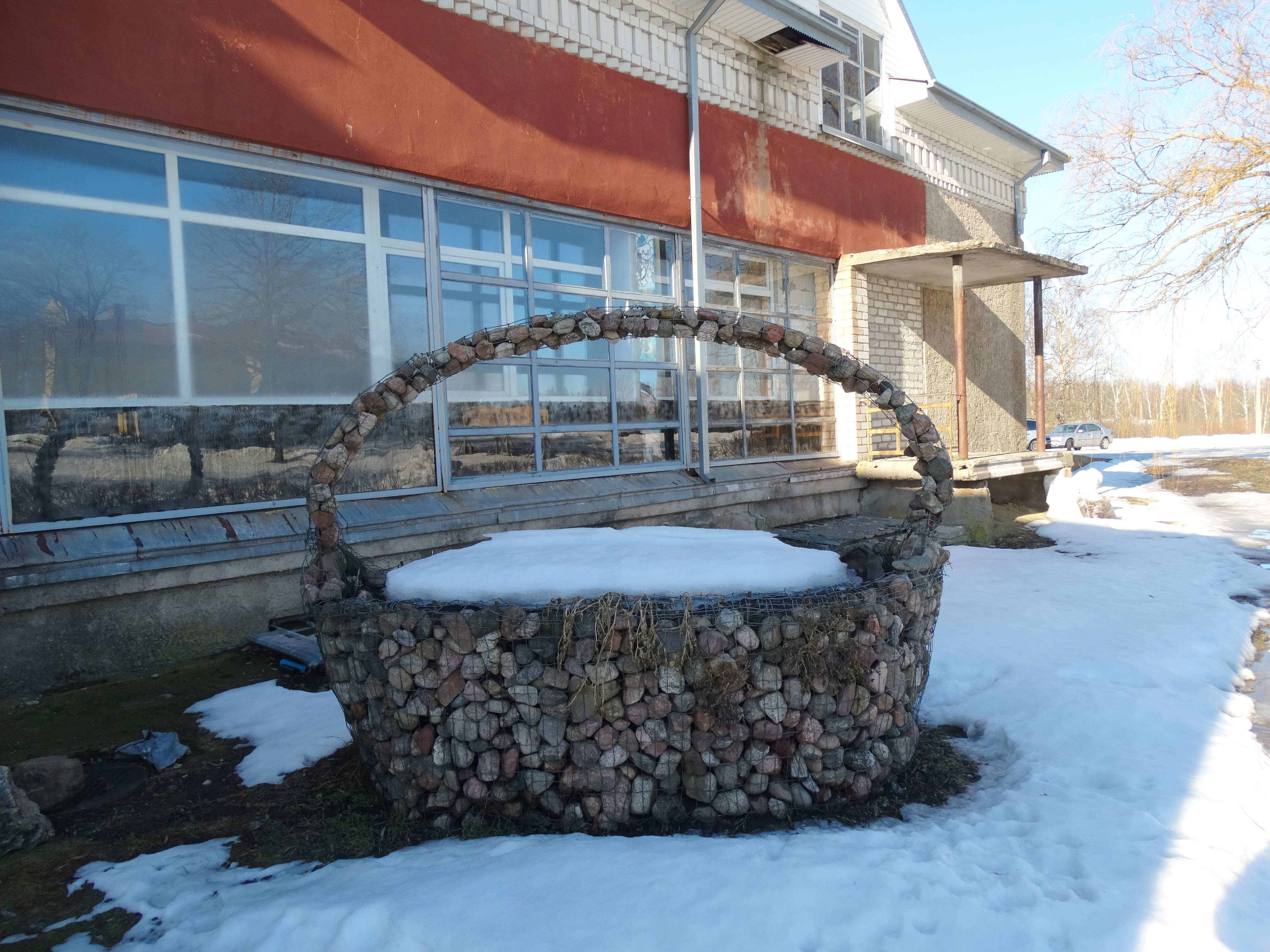 Šiauduva, basket with stones, Šilalė district, Lithuania